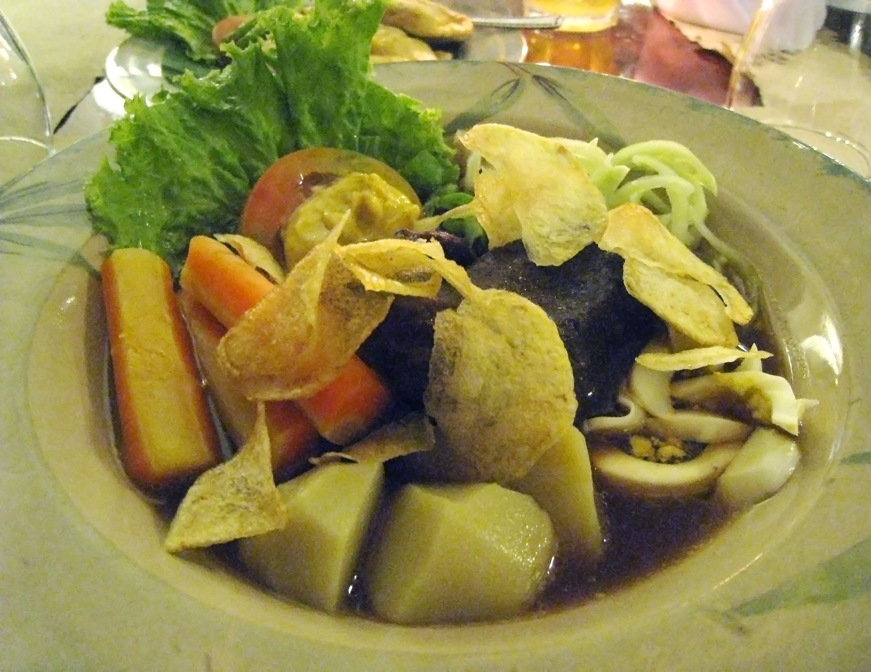 Selat Solo (Solo Salad), an adaptation of European cuisine into Javanese cuisine and taste. Beef, potato, carrot, lettuce, cucumber, onion, green bean, boiled egg, tomato with mustard served in thin soup made of sweet soy sauce and worcester sauce soup, topped with potato chips. Specialty of Surakarta (Solo) city. Roemahkoe Heritage Hotel dinner, Surakarta, Central Java, Indonesia.Unknown selat solo, adaptasi masakan eropa ke dalam masakan bercita rasa jawa. daging sapi, kentang rebus, wortel, daun selada, timun, buncis, telur rebus, tomat dan mostar disajikan dengan kuah encer yang terbuat dari kecap manis dan kecap inggris, ditaburi kripik kentang. masakan khas kota solo (surakarta). makan malam di roemahkoe heritage hotel, surakarta, jawa tengah, indonesia.